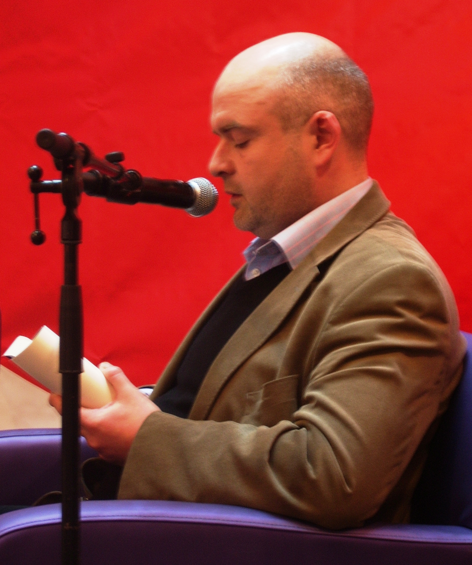 Andres Anvelt (born 1969) is an Estonian politician.